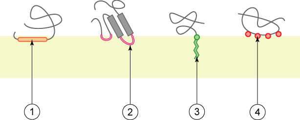 Schematic representation of the different types of interaction between monotopic membrane proteins and the cell membrane